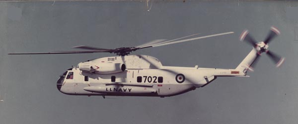 Navy of Iran Sikorsky CH-53.